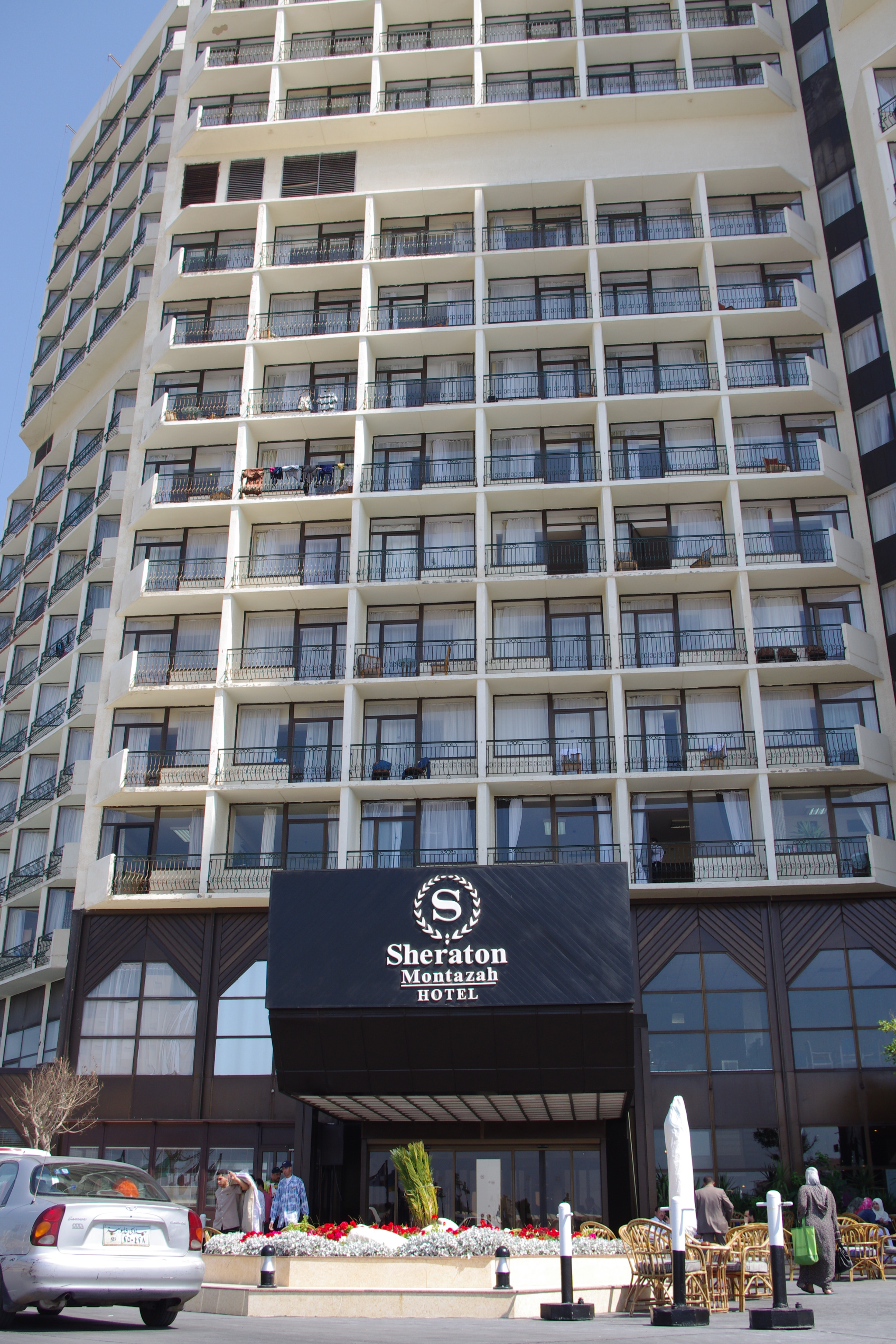 Sheraton Montazah Hotel Alexandria